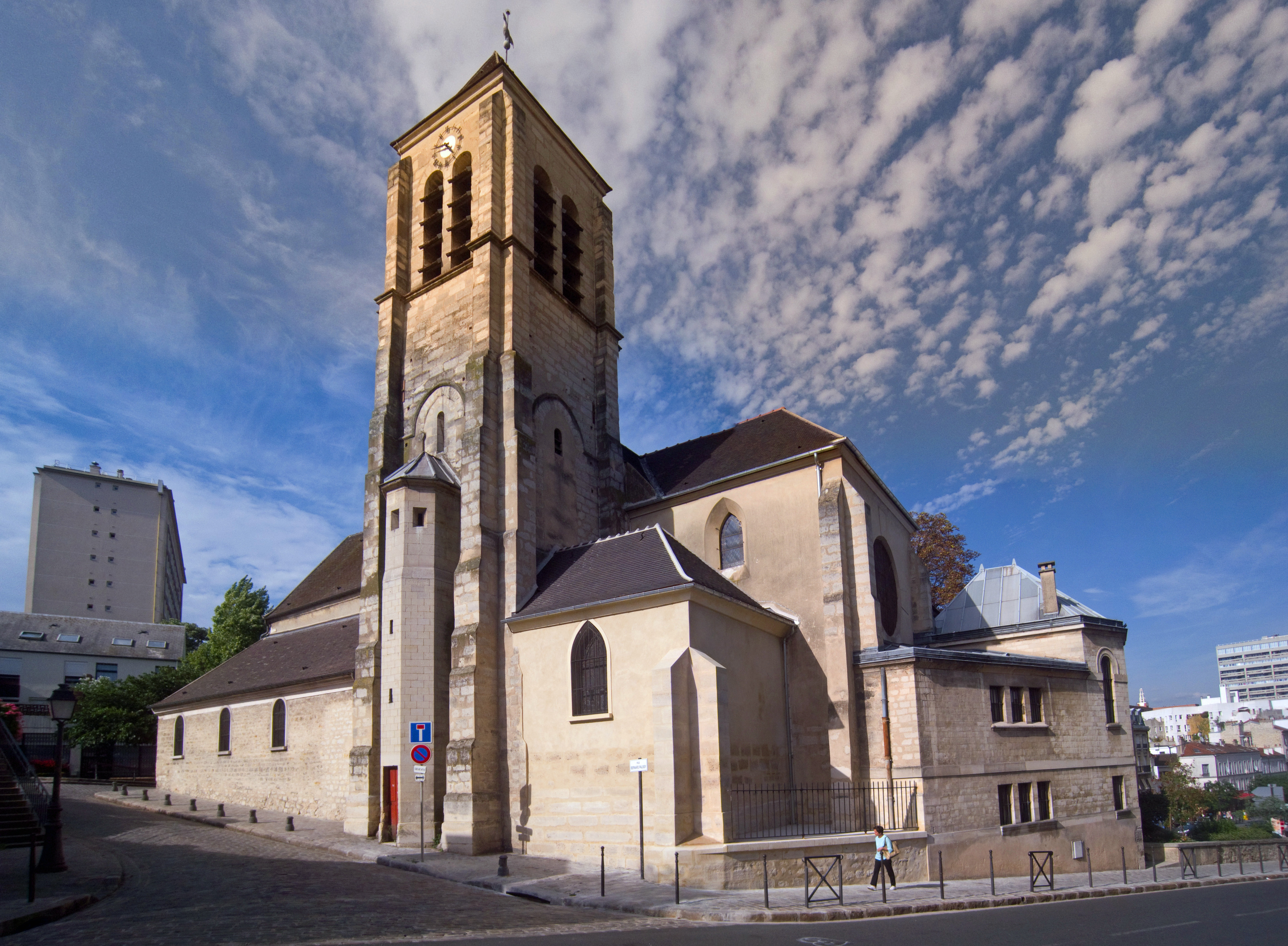 Saint-Pierre-Saint-Paul Church, Ivry-sur-Seine, Val-de-Marne, France. Rear view from the rue Gaston-Cornavin.